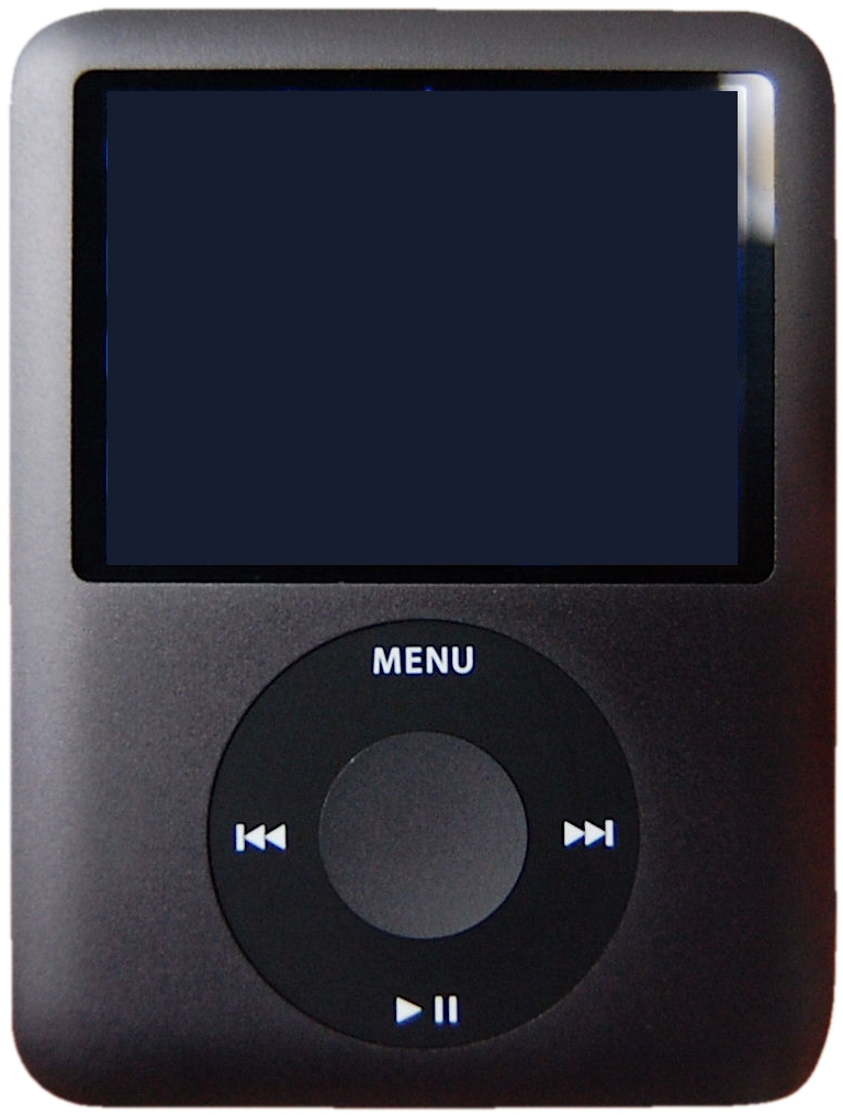 A 3rd generation iPod. File:Ipod nano in palm.jpg cropped by Rugby471; the unidentified picture on the screen removed losslessly by AVRS using “jpegpixi -m 0 -v IPod_nano_3g_black.jpg test.jpeg 98,83,574,432”.